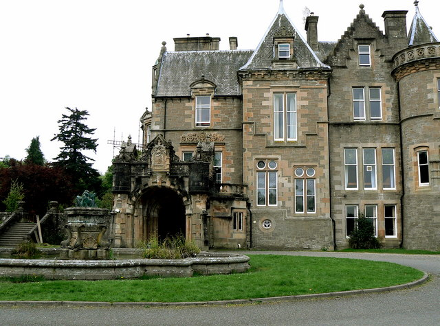 Loch Lomond Youth Hostel. Loch Lomond Youth Hostel is an impressive country house set in the Loch Lomond and Trossachs National Park, with views of Loch Lomond. The house retains many original features including a sweeping staircase with vast stained glass windows and Ballroom.